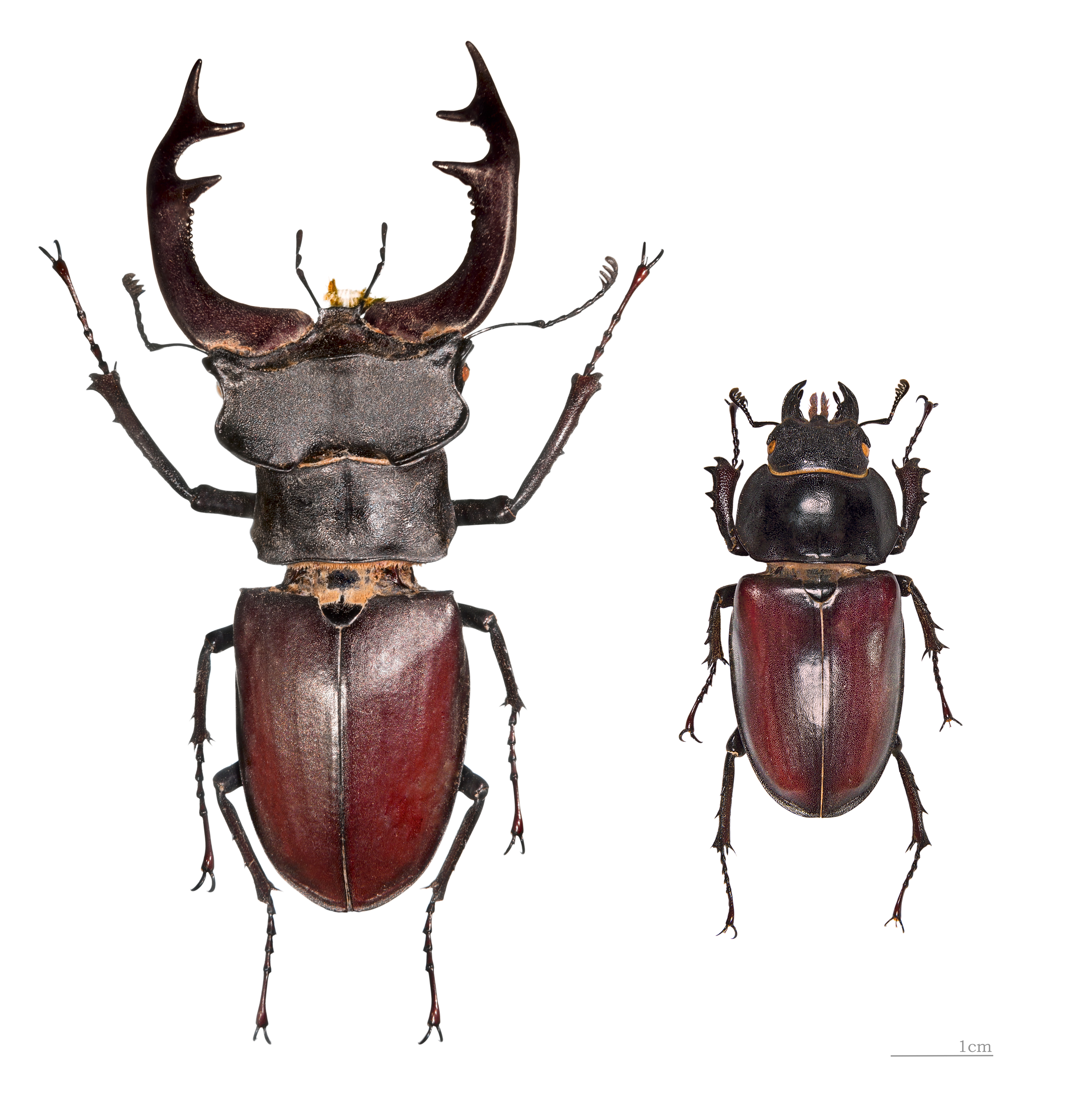 Stag beetle, both sex, male and female.